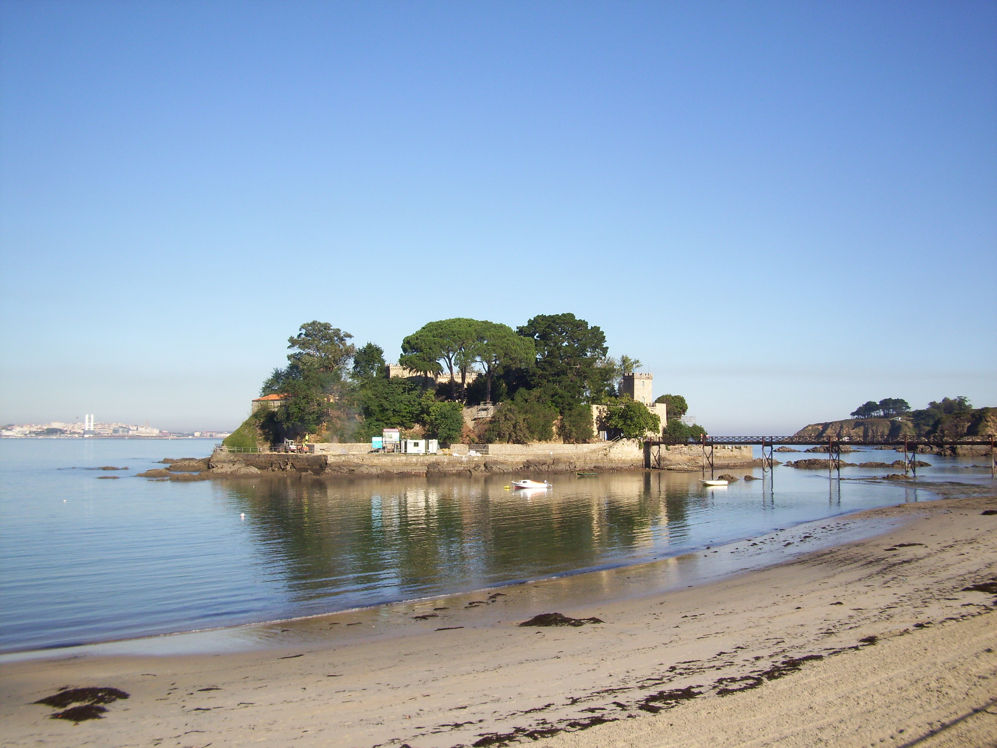 Portocovo beach and castle of Santa Cruz, at Porto de Santa Cruz (Oleiros, Galicia, Spain). On the left, A Coruña harbour control tower.